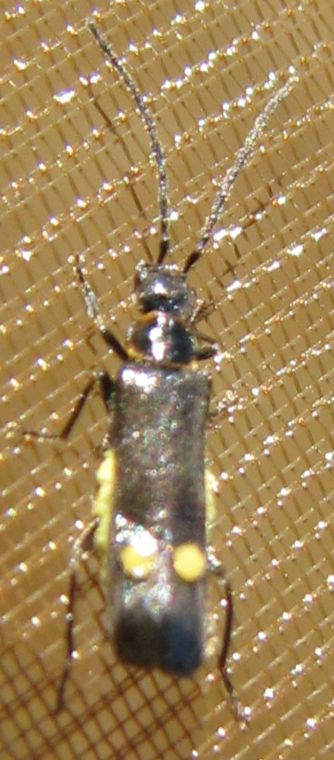 Soldier Beetle from Vestfold, Norway